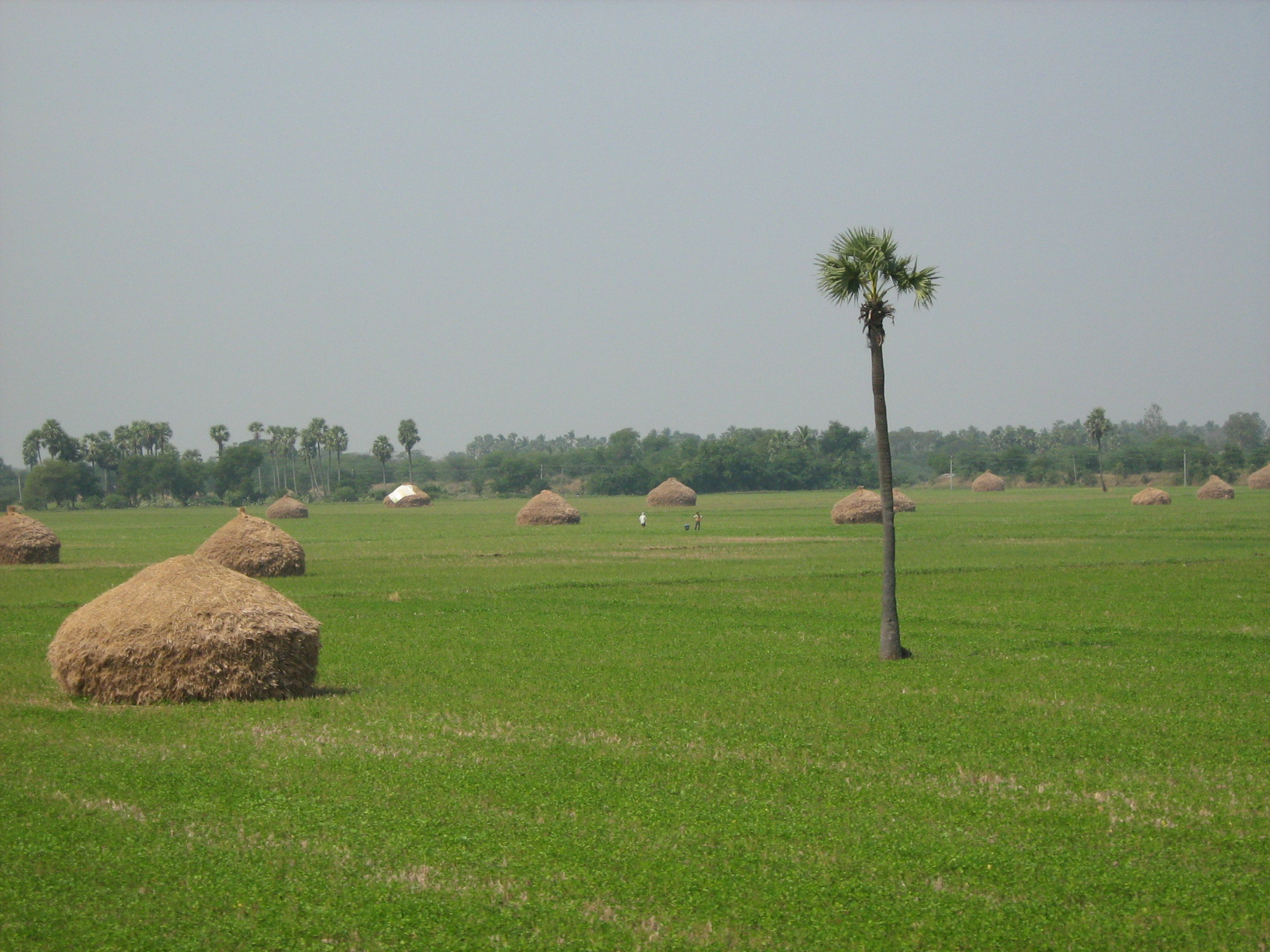 Paddy Fields in Medak district